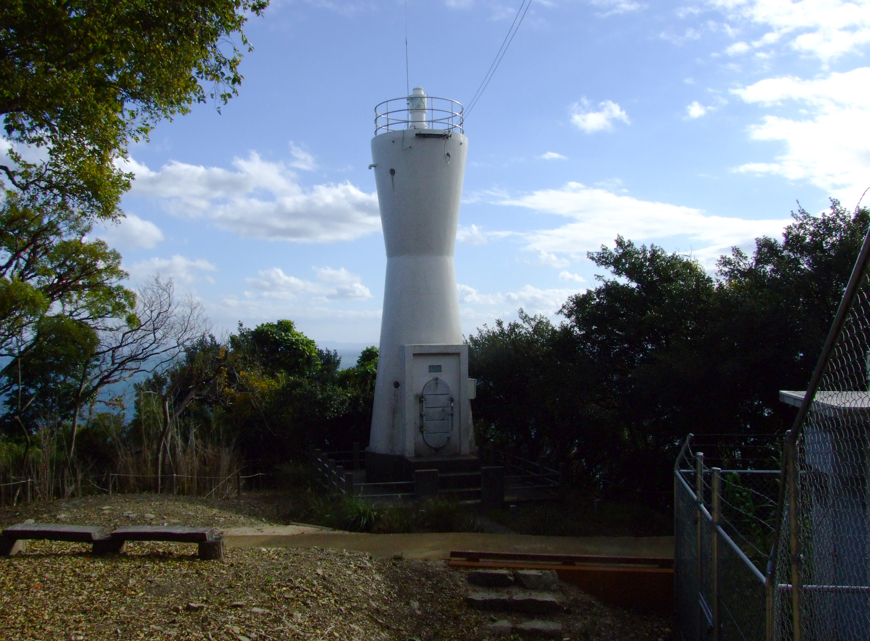 Oishinohana Lighthouse in Awaji-shima(island), Japan.